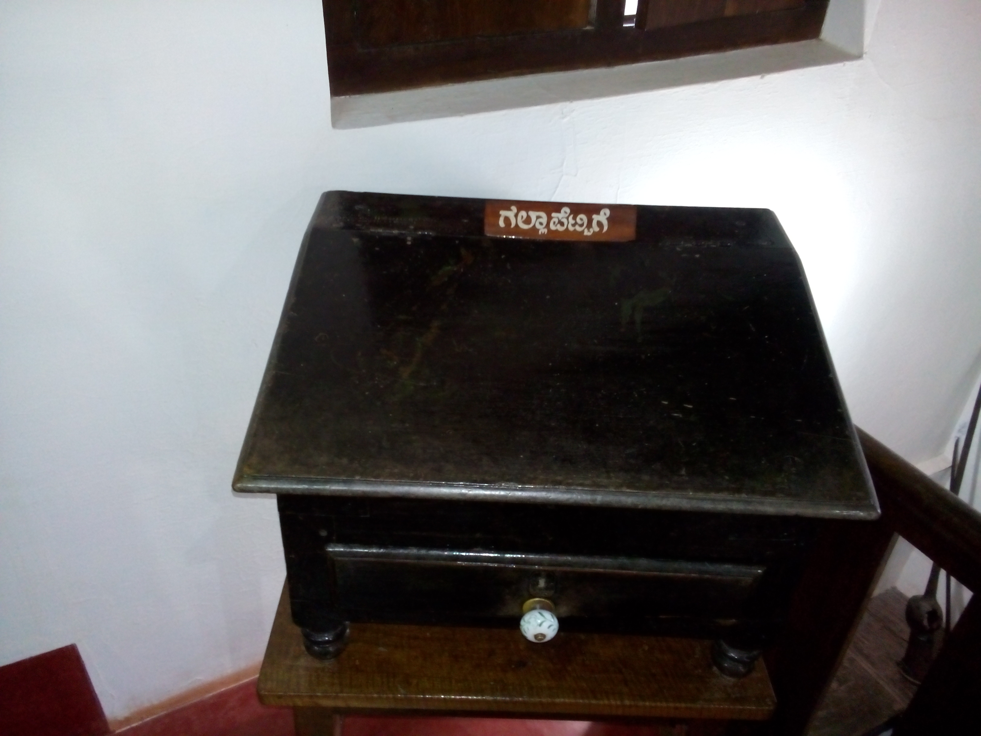 accounts table